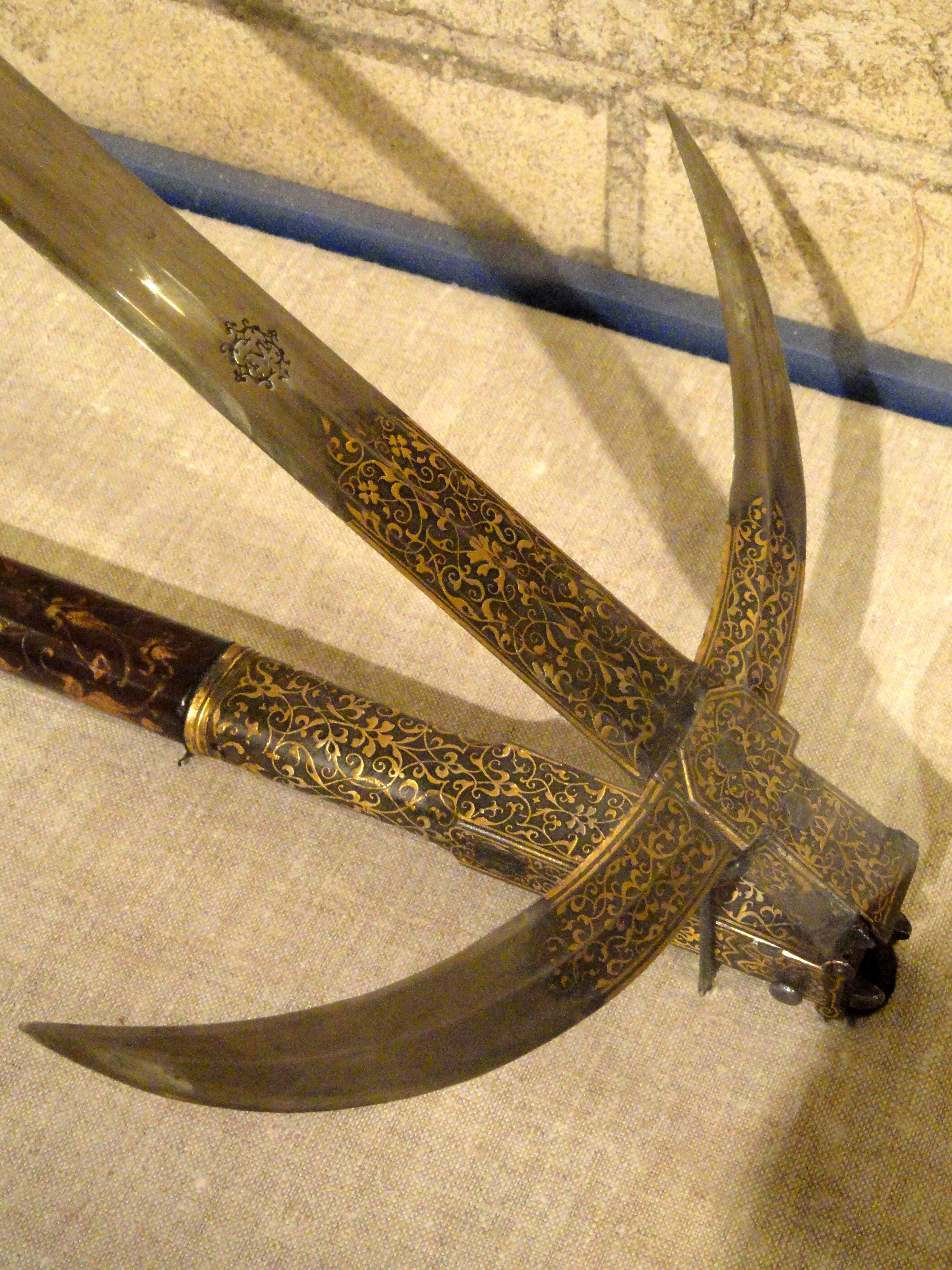 Folding spetum, Italy, c. 1550; a very fine example once owned by the Rothschild family. Exhibit in the Higgins Armory Museum, 100 Barber Avenue, Worcester, Massachusetts, USA. The museum permitted photography without any restriction, both in writing and when I asked verbally.